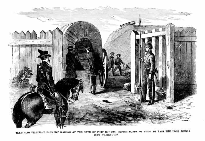 Union soldiers searching Virginia farmers' wagons at Fort Runyon sometime during the Civil War.